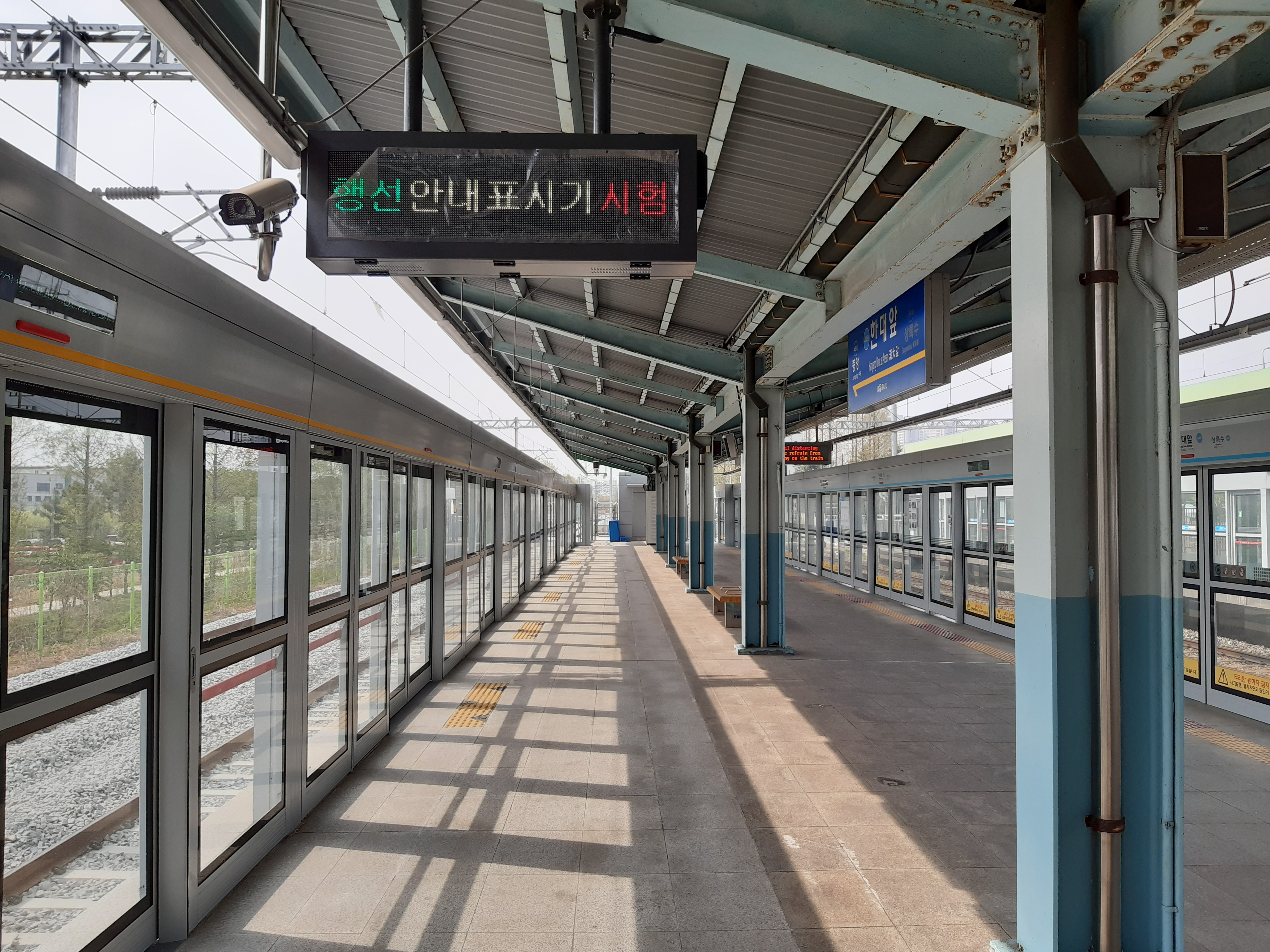 The platform at Hanyang University at Ansan Station